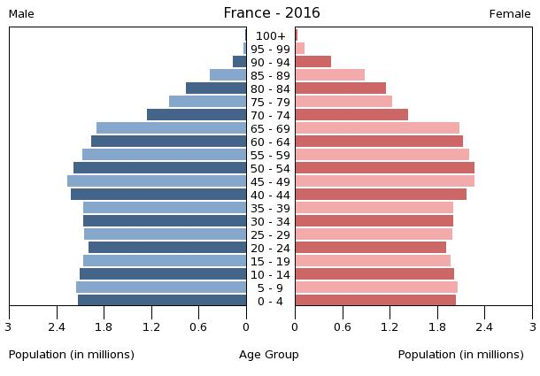 The population pyramid of France illustrates the age and sex structure of population and may provide insights about political and social stability, as well as economic development. The population is distributed along the horizontal axis, with males shown on the left and females on the right. The male and female populations are broken down into 5-year age groups represented as horizontal bars along the vertical axis, with the youngest age groups at the bottom and the oldest at the top. The shape of the population pyramid gradually evolves over time based on fertility, mortality, and international migration trends.